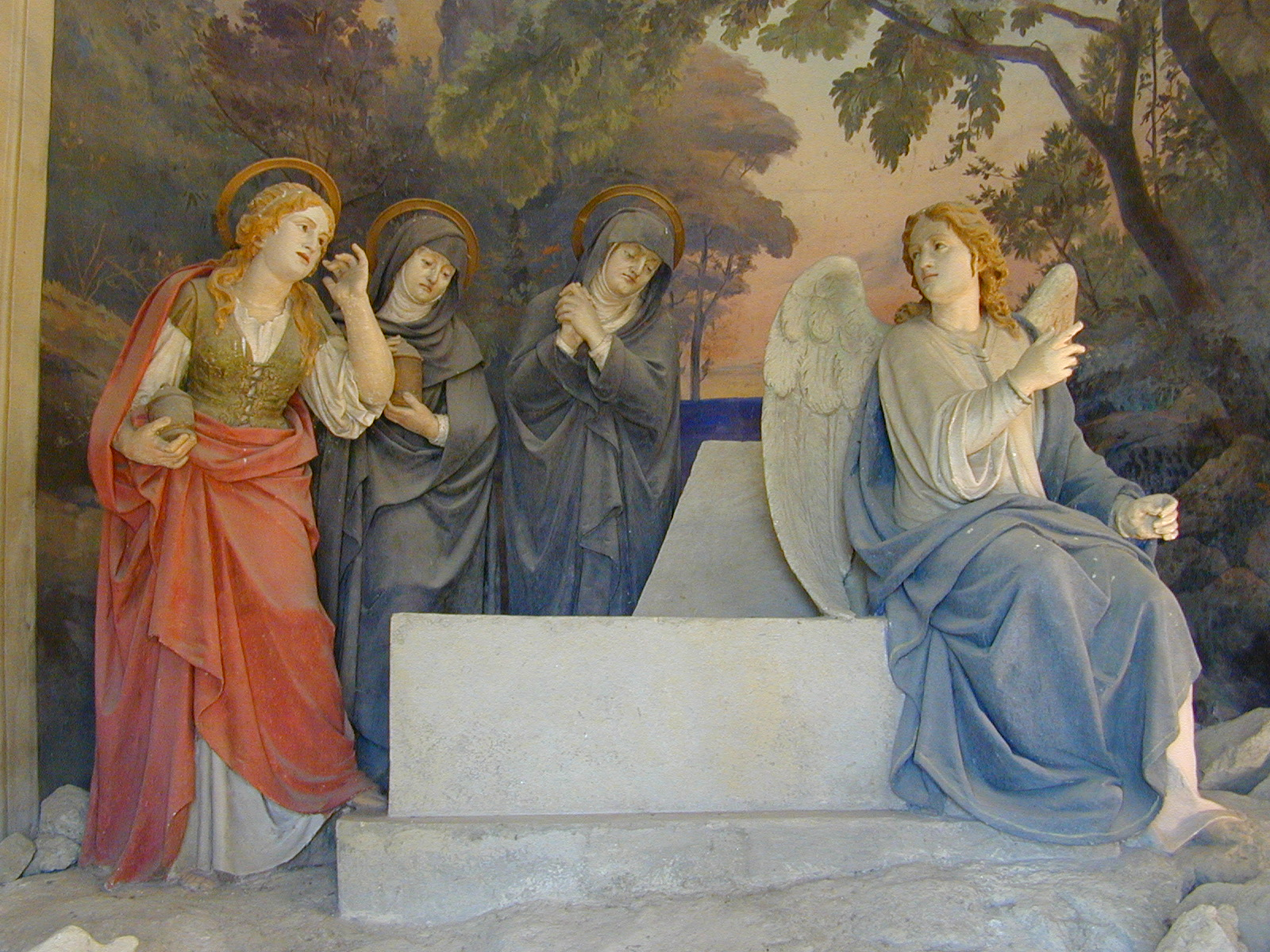 Sacro Monte di Crea; The finding of the empty tomb of Christ, statues by Antonio Brilla, 1889